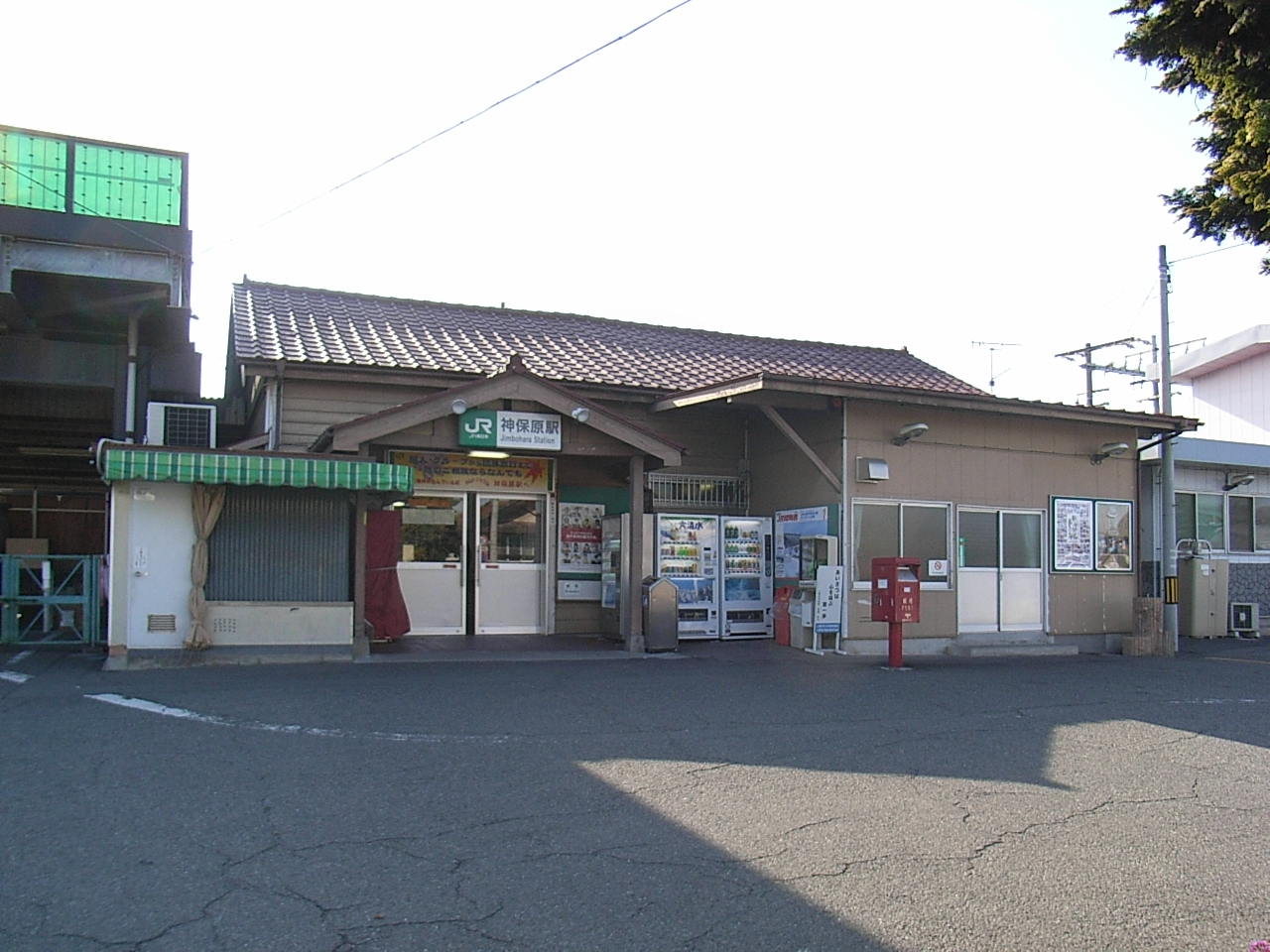 Jimbohara Station on JR Takasaki Line, 265 Jimboharamachi, Kamisato Town, Kodama District, Saitama Prefecture, Japan